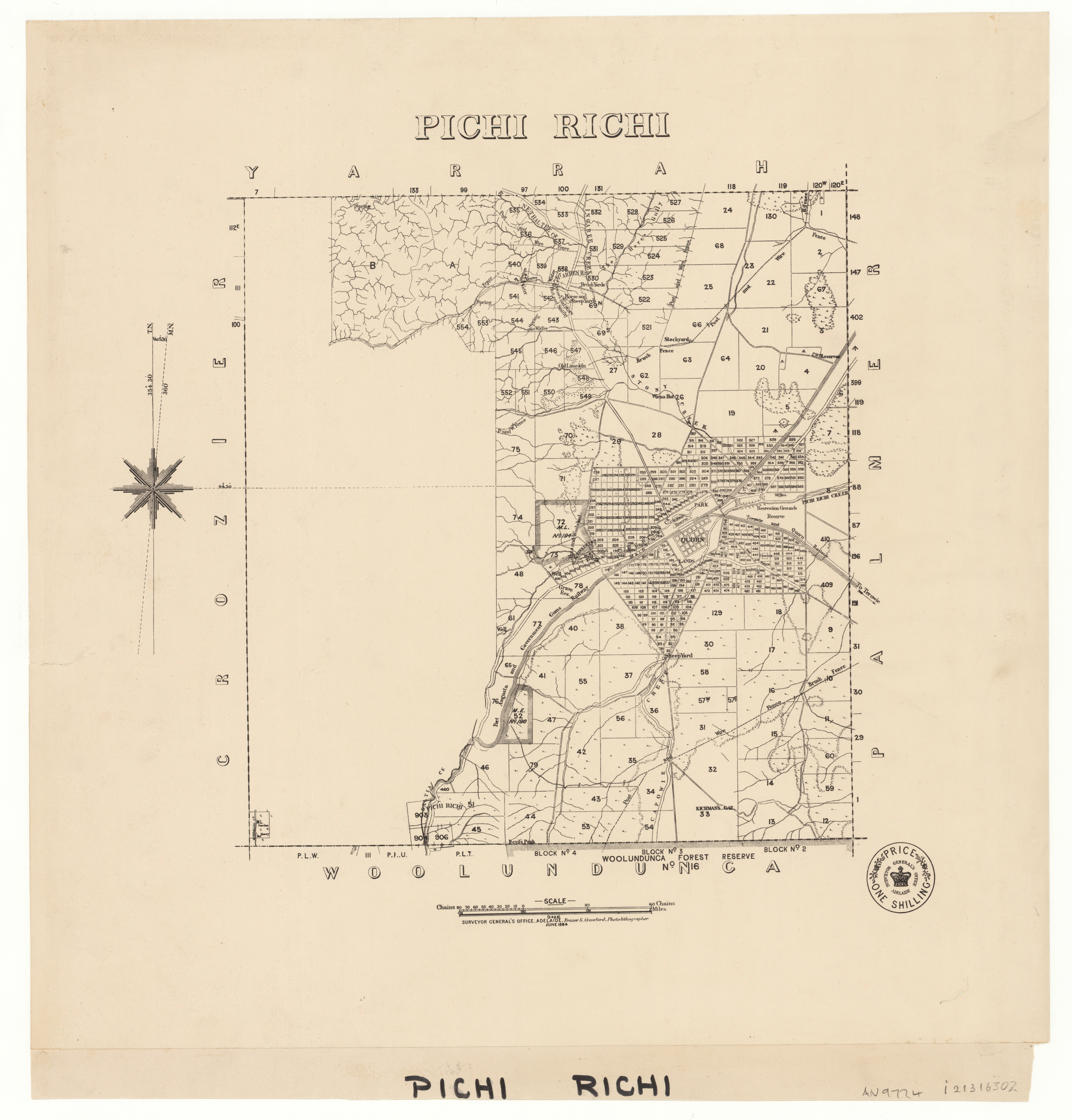 Hundred of Pichi Richi 1884 State Library of South Australia catalog entry